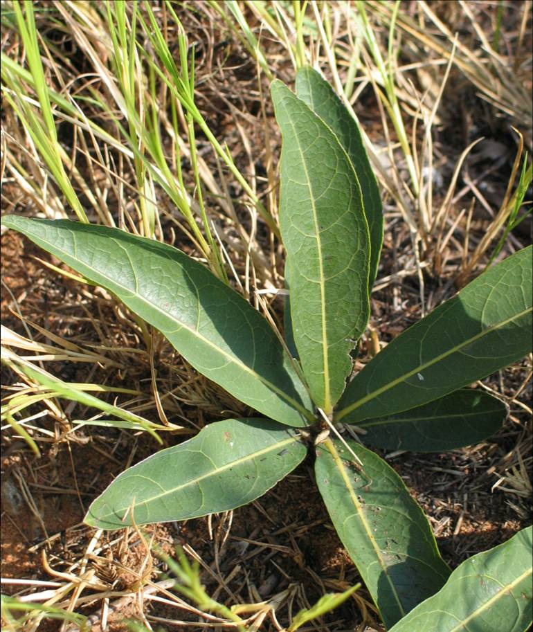 a poison leaf (ratbane, Dichapetalum cymosum, gifblaar). The plant is African and has naturally made fluorocetate, a poison, to ward off animals.